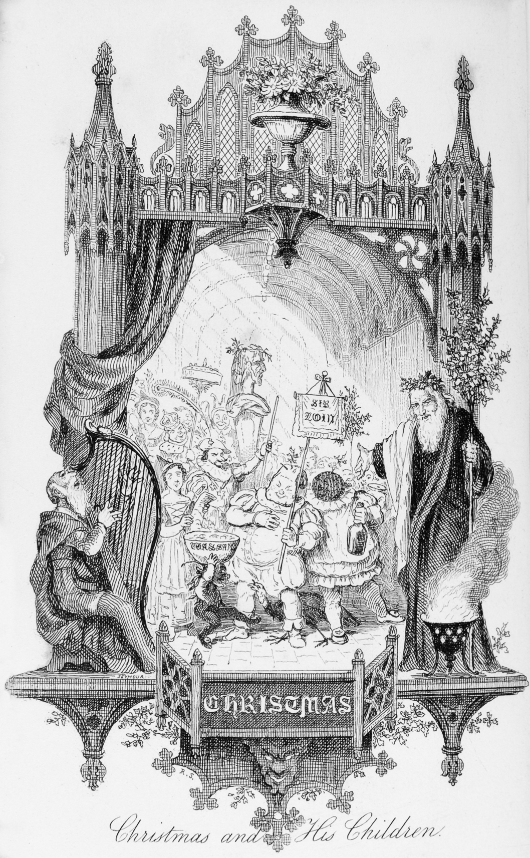 "Christmas and his children", a vision of the lost Christmas of Merry England. The author imagines Old Father Christmas as a magician, "summoning his spirits from the four winds for a general muster". The 'children' are identified on pp114-118 as Roast Beef and his faithful squire Plum Pudding, the slender figure of their sister Wassail with her fount of perpetual youth, a "tricksy spirit" who bears the bowl and is on the best of terms with the Turkey, Mumming, Misrule with a feather in his cap, the Lord of Twelfth Night under a state-canopy of cake and wearing his ancient crown, Saint Distaff looking like an old maid, Carol singing, the Waits, and the twin-faced Janus